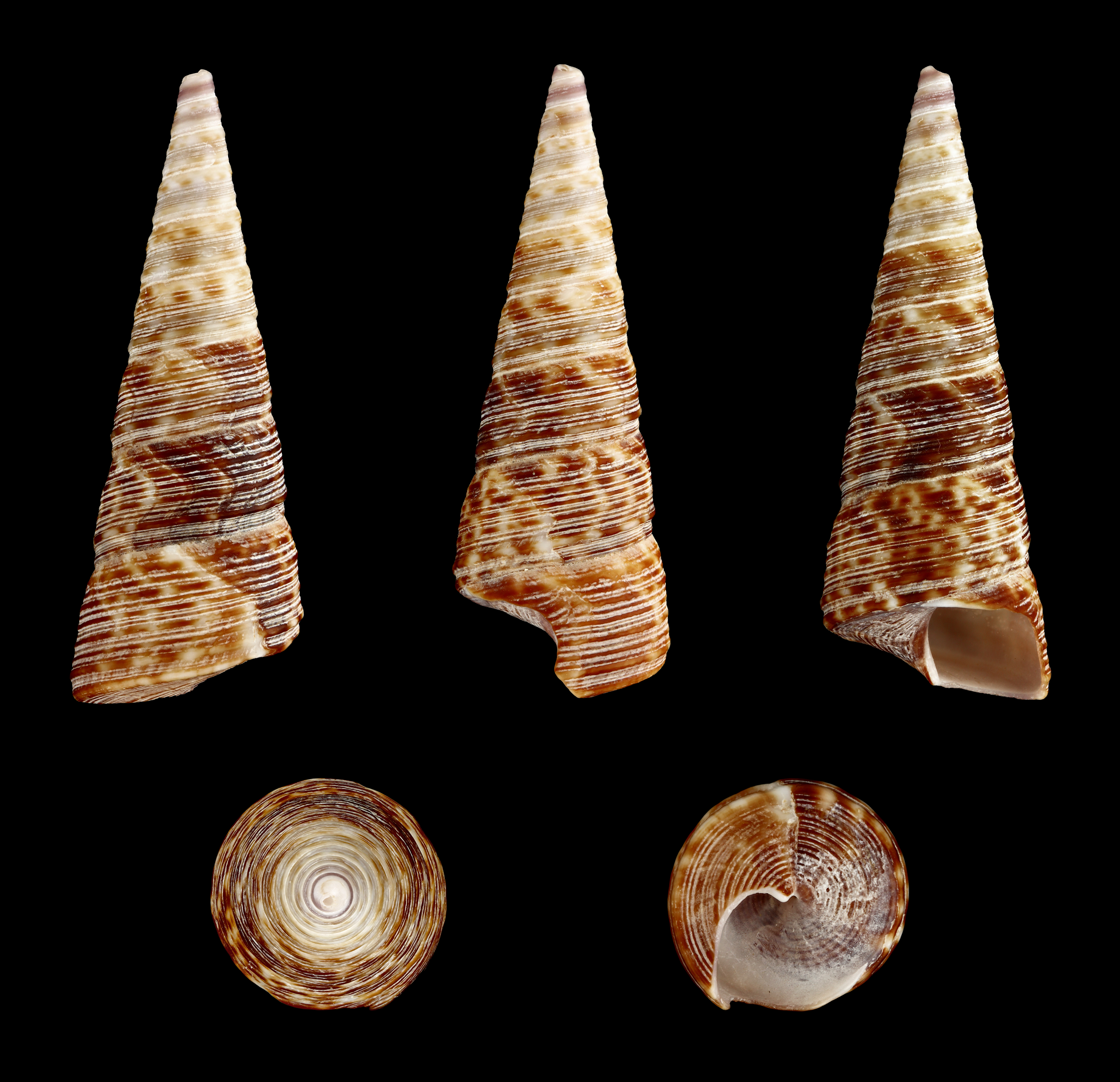 Rosy Screw Snail; Length 3.9 cm; Originating from Kaiteriteri, Tasman District, New Zealand; Shell of own collection, therefore not geocoded. Dorsal, lateral (right side), ventral, back, and front view.